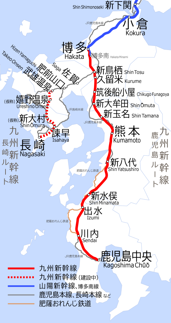 Map of Kyushu Shinkansen.